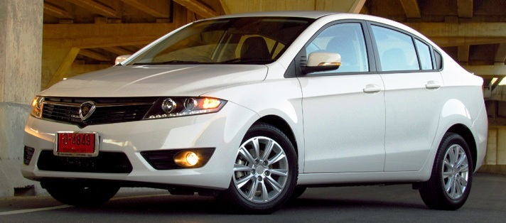 A photo of the front end of the 2013 Proton Prevé CFE Turbo in Thailand.